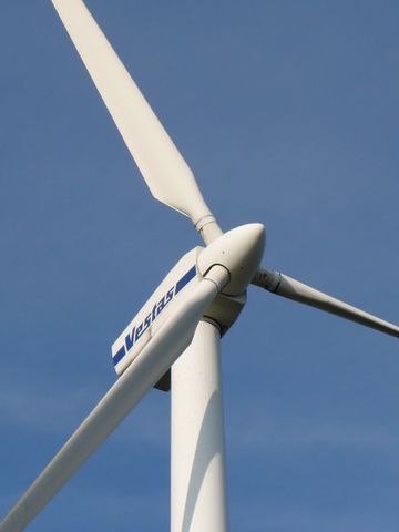 A windmill in Sweden. – JMT (T) 08:44, 11 March 2007 (UTC)